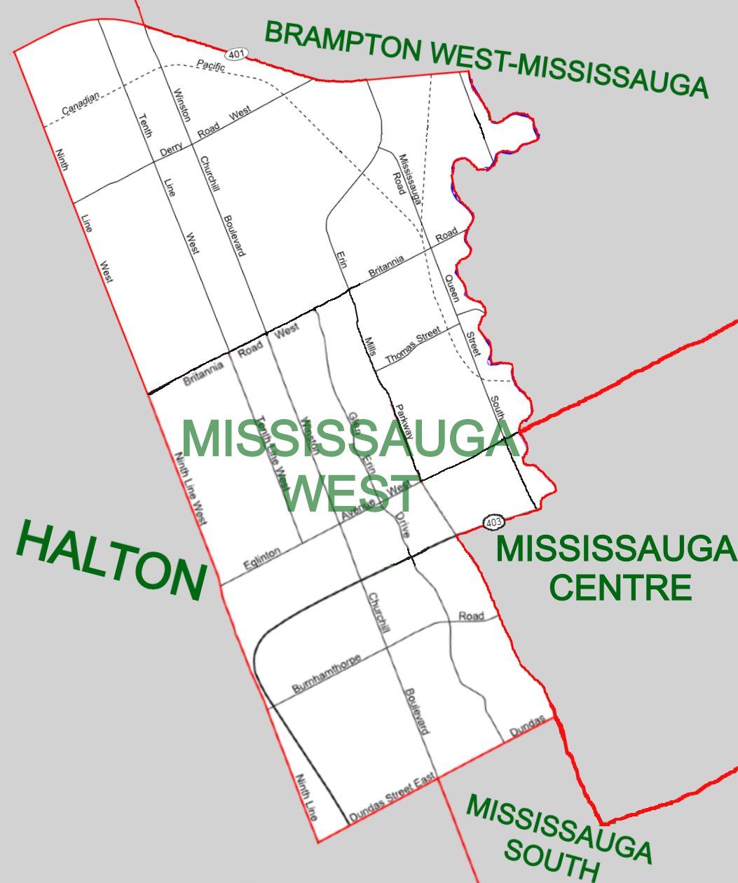 Map of the Mississauga West riding (1997-2004)